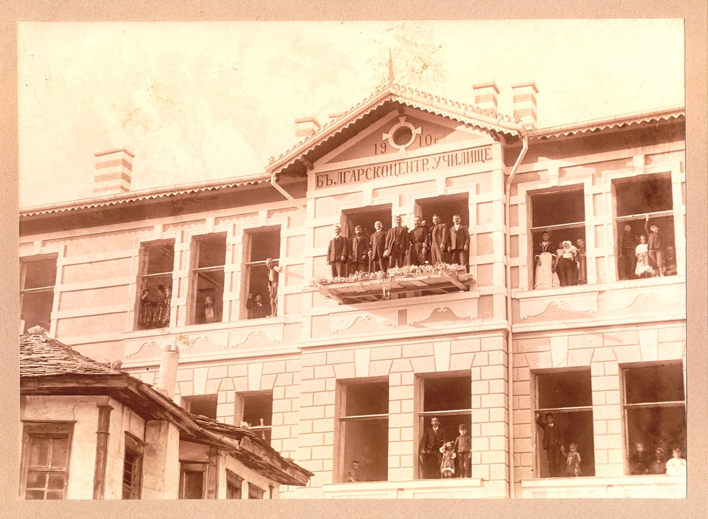 Bulgarian school in the town of Krushevo in 1910